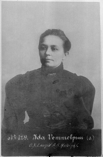 Photograph of the Finnish politician Iida Vemmelpuu (1868–1924).